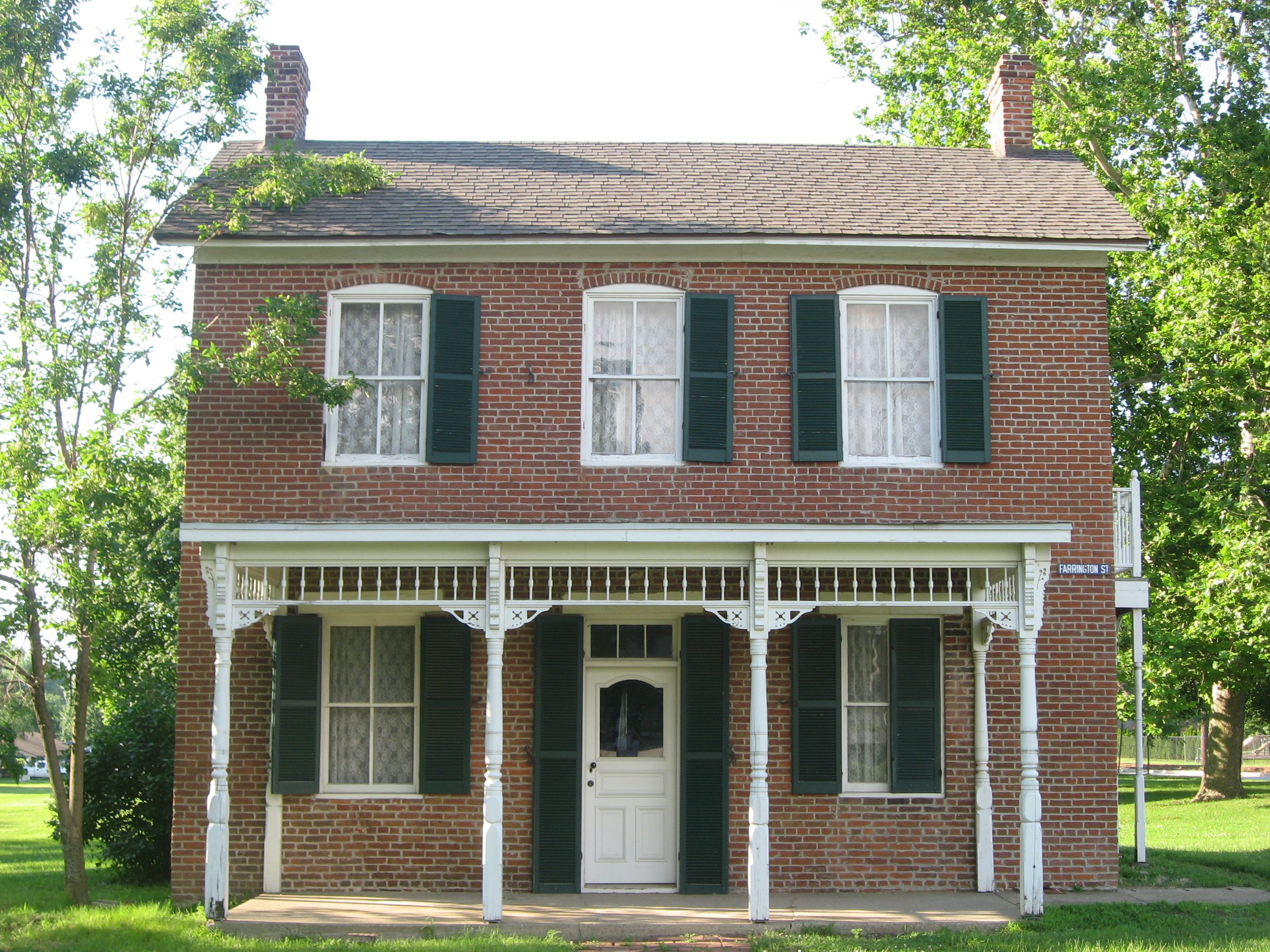 Front of the Paul Dresser Birthplace, located on the northwestern corner of the junction of First and Farrington Streets in Terre Haute, Indiana, United States. Built in 1850, it is listed on the National Register of Historic Places.